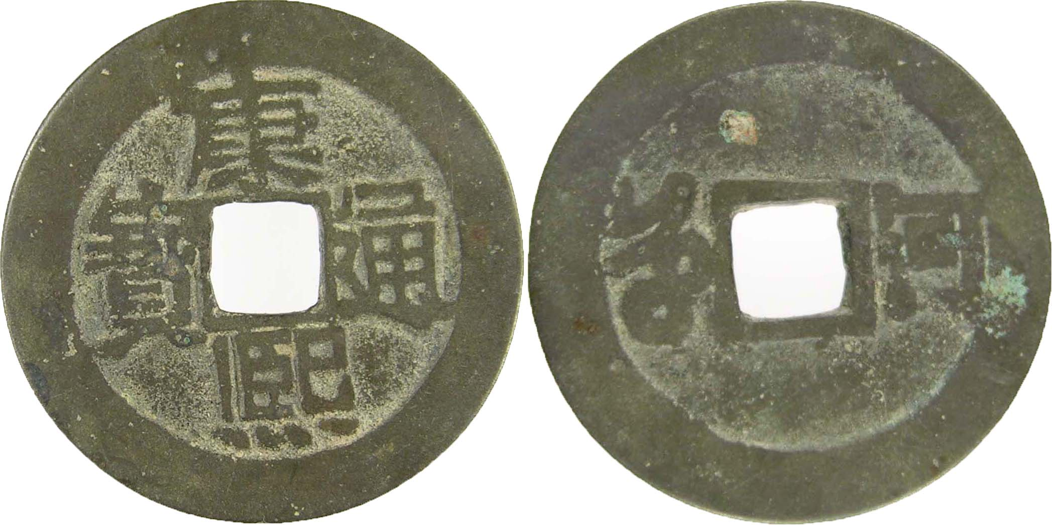 A Chinese copper alloy coin issued during the Chinese Qing dynasty (AD1644-1911) during the reign of the Kangxi emperor (AD1662-1722) from the Hebei mint. Obverse: Inscription Obverse inscription: reads Kangxi tongbao in Chinese (literally 'Kangxi circulating treasure' ie coin of Kangxi) Reverse: Inscription Reverse inscription: The back (symbol on the left is in Manchurian; the other one is in Chinese) is bilingual and names the mint of Hebei. Dimensions: Diameter: 27.34mm; weight: 3.67g. Identification by Helen Wang, Curator, East Asian Money, Department of Coins and Medals; The British Museum.